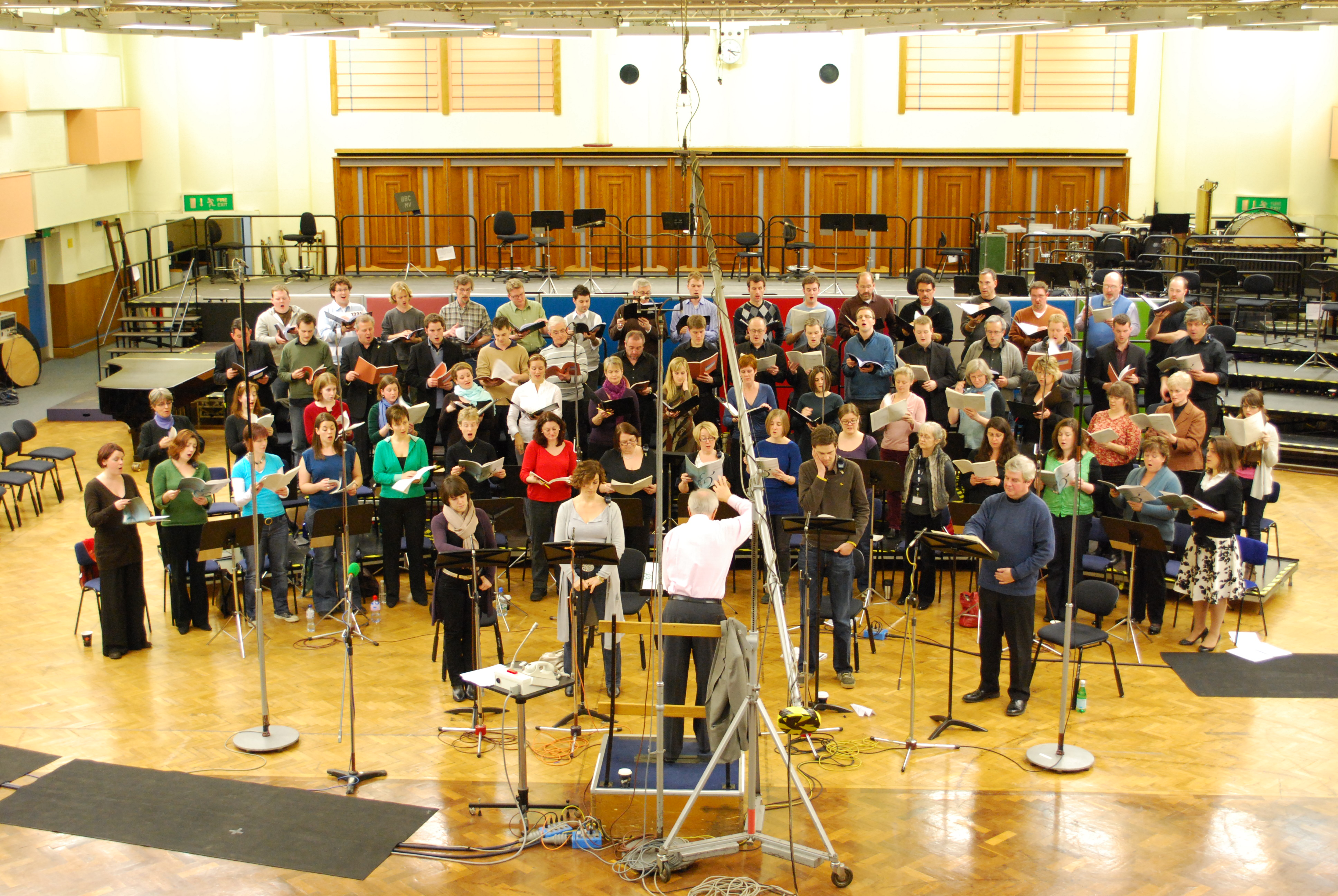 BBC Singers and Ensemble Singers rehearse at BBC Maida Vale Studio 1